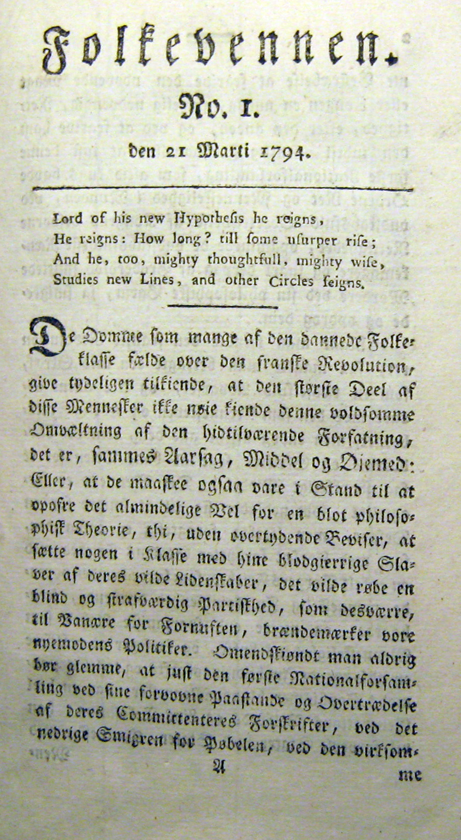 Folkevennen, nr. 1, 1. årgang, 1794.